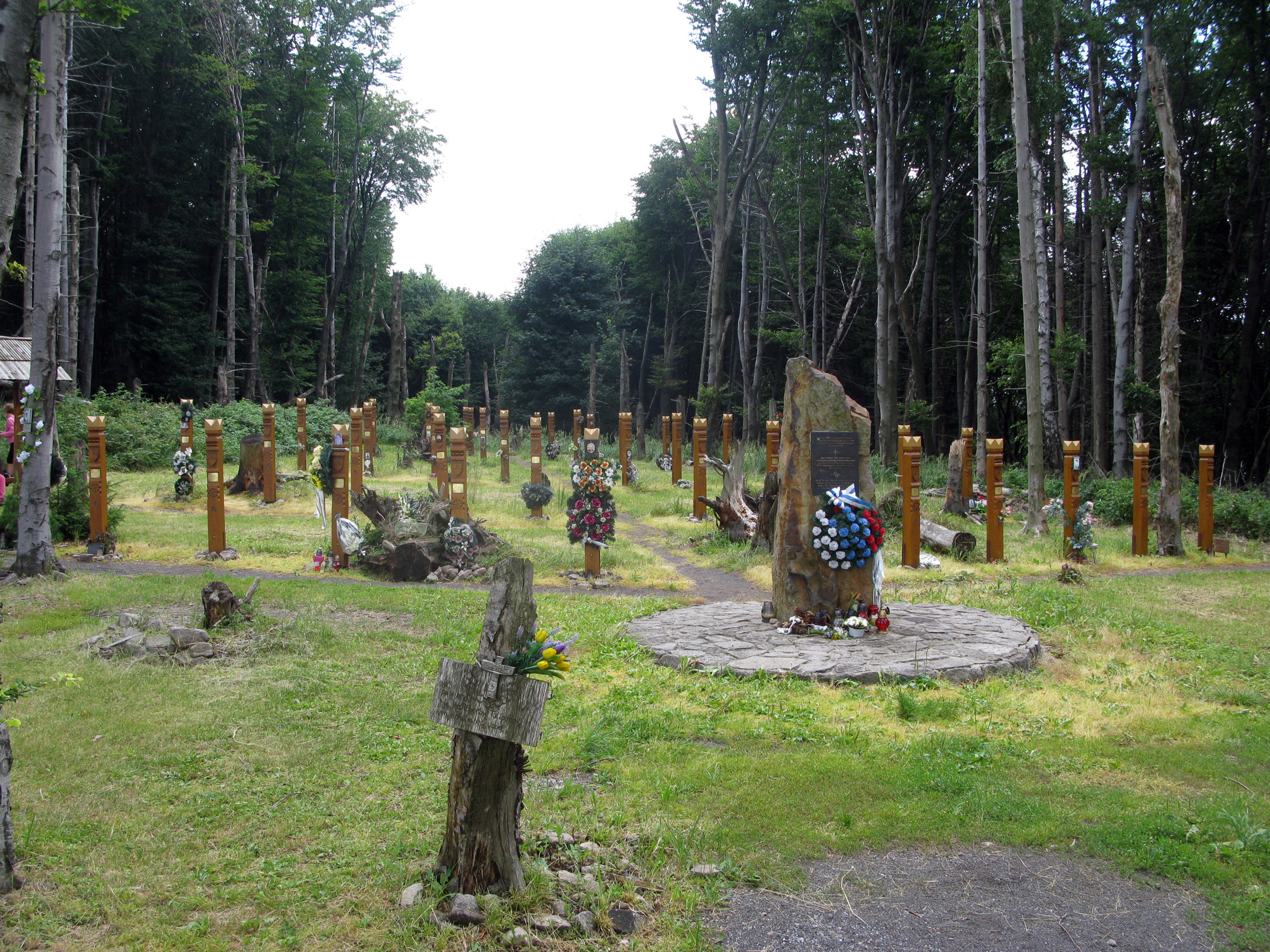 Memorial of the victims of the Slovak Air Force Antonov An-24 crash on the Borsó Hill in Hungary